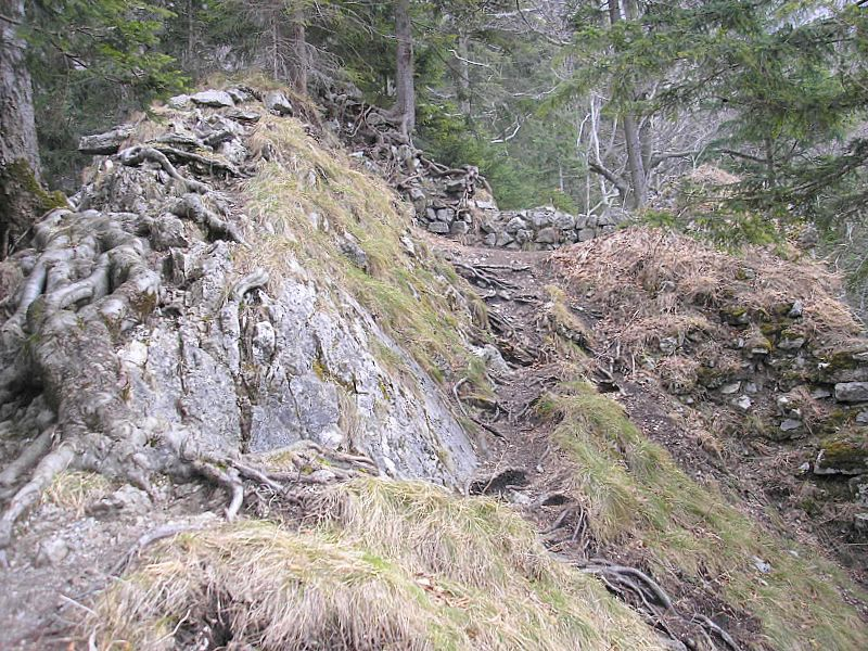 Hohenwaldeck castle (Schliersee-Fischhausen, Landkreis Miesbach, Upper Bavaria, Germany). The interior of the keep